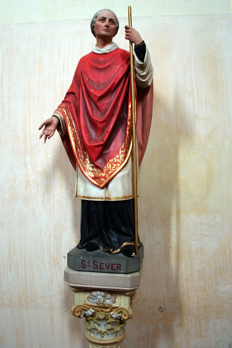 Saint-Sever polychrom sculpture, Saint Sever de Rustran Abbey, France